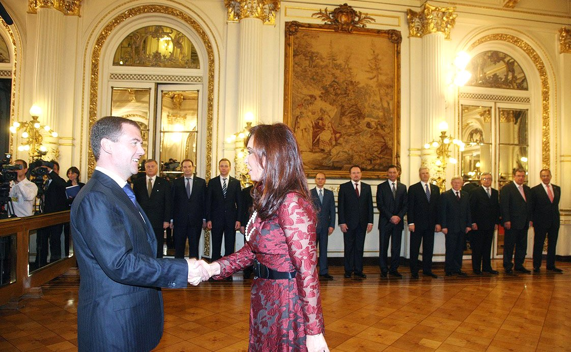 With President of Argentina Cristina Fernandez de Kirchner.